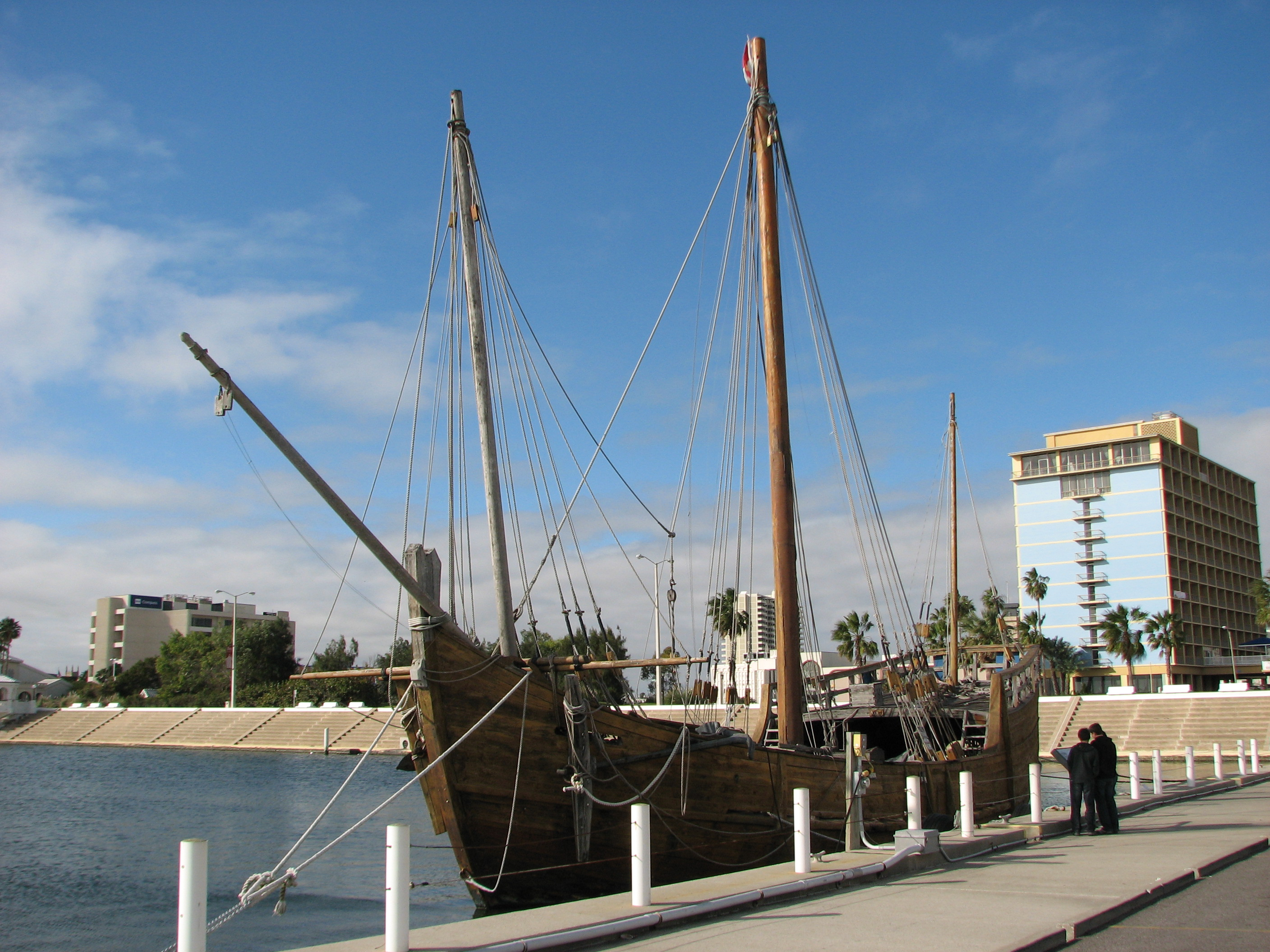 Replica of La Niña in the harbor of Corpus Christi, Texas